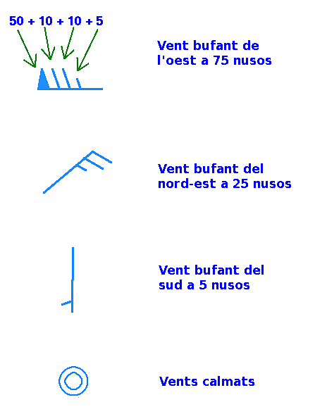 Hydrometeorological Prediction Center Camp Springs, MD